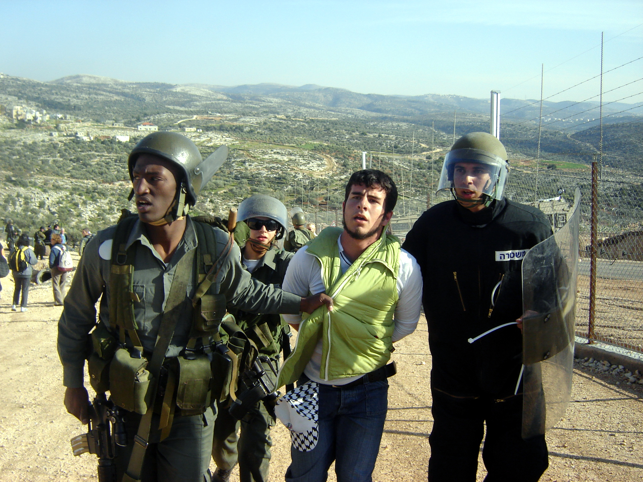 demonstrations against Apartheid Wall in Bil'in / 2006